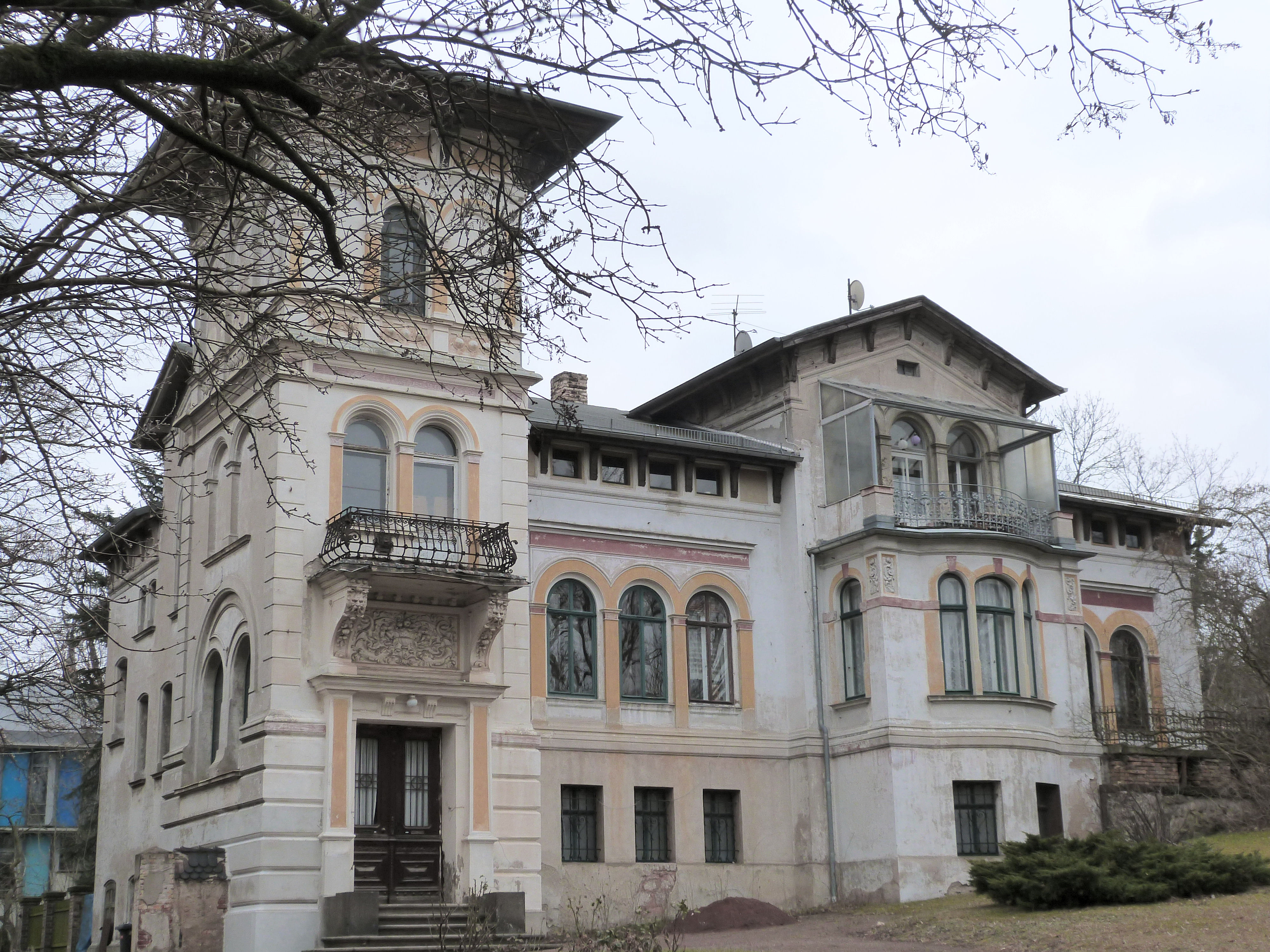 Villa Seckendorff, Burgstrasse No. 37a in Halle (Saale), built in 1859/60